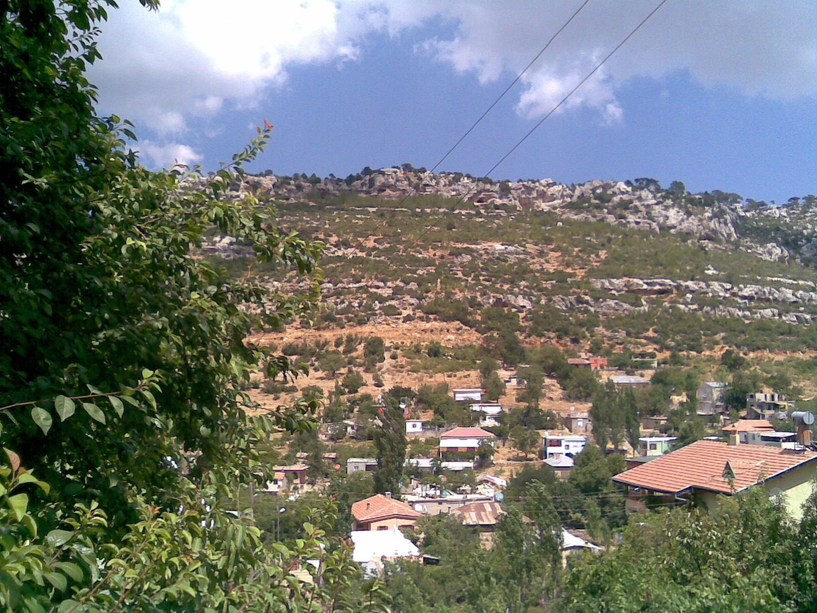 Gökbelen